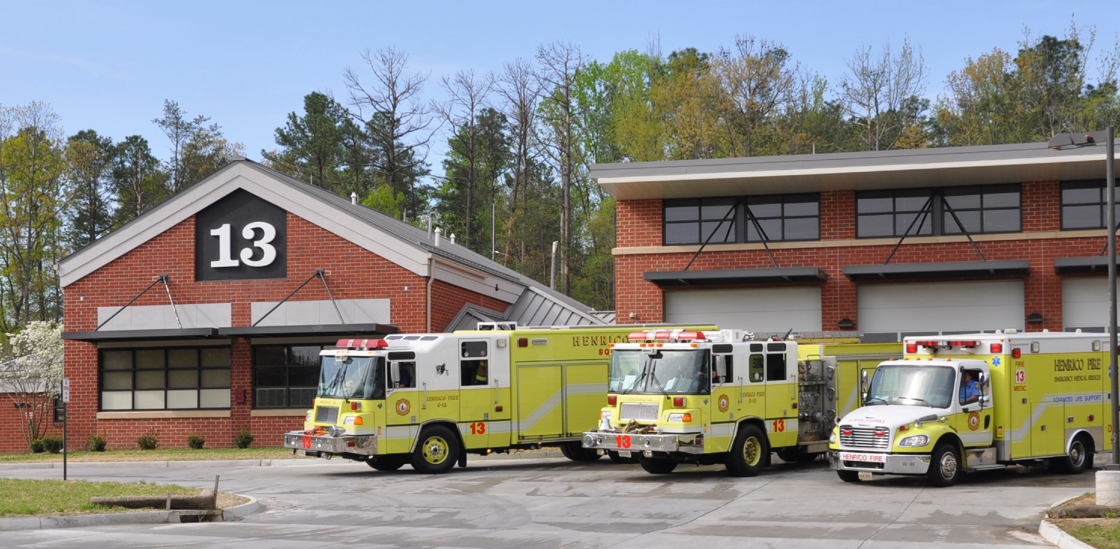 Henrico County Fire Department Firehouse 13